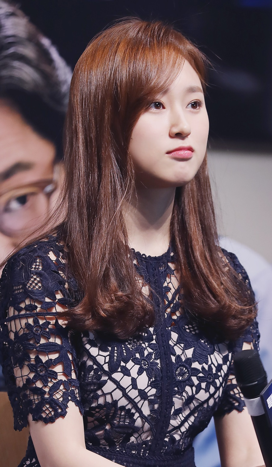 170418 특별시민 라이브톡 류혜영